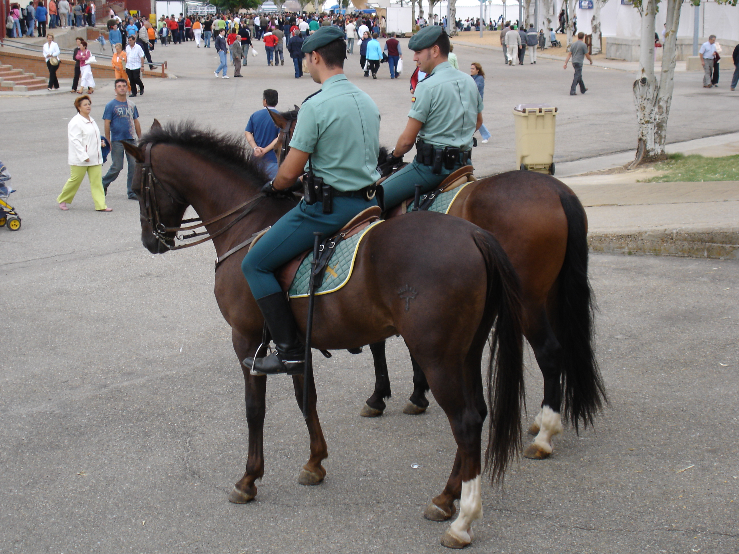 Civil Guard on horseback with its old uniform.